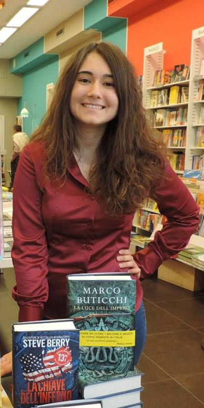 Erica Bertelegni